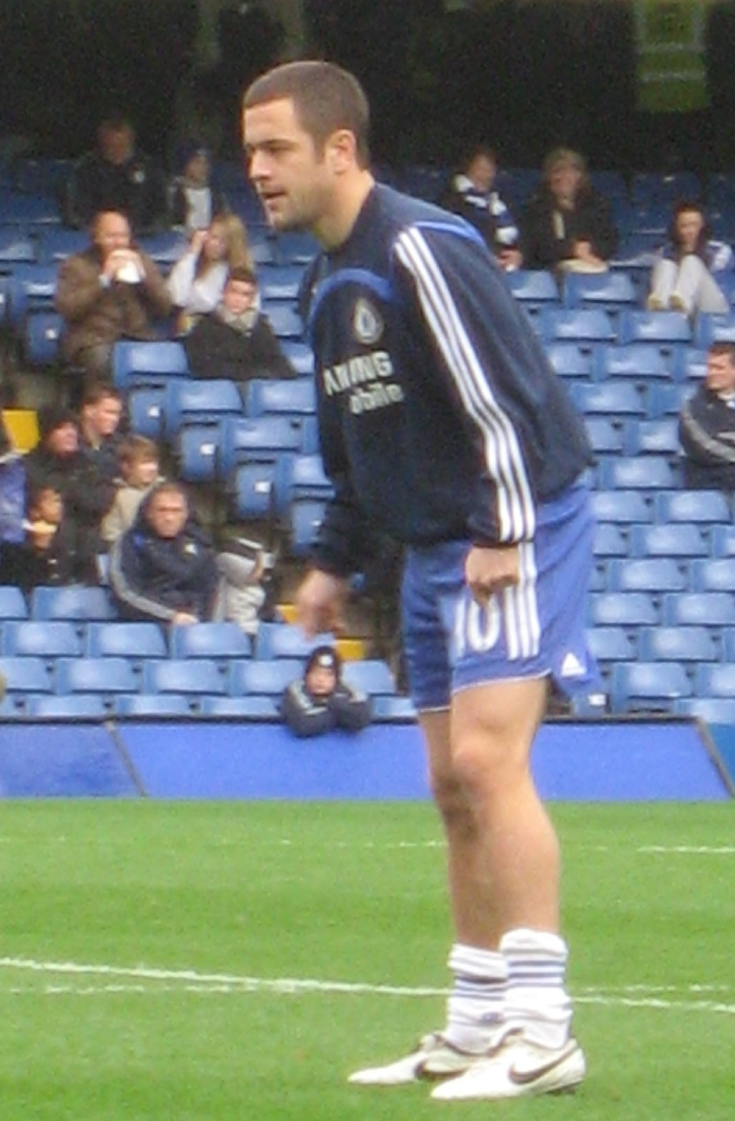 Joe Cole